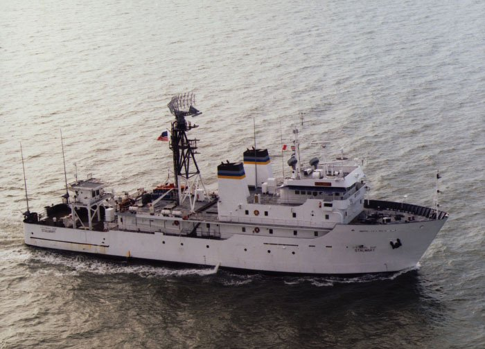 USNS Stalwart (T-AGOS-1)